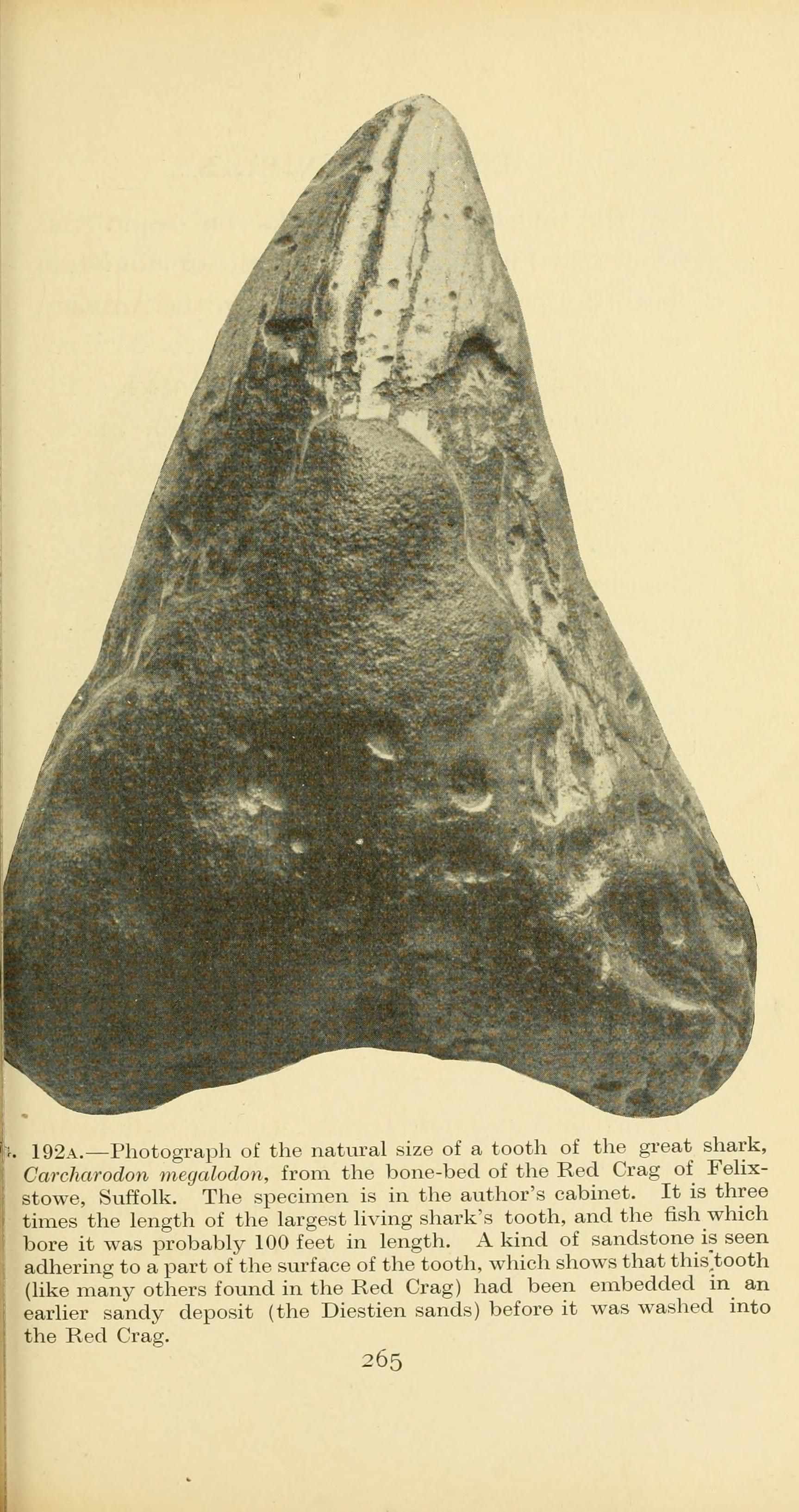 h 192a. — Photograph of the natural size of a tooth of the great shark, Carcharodon megalodon, from the bone-bed of the Red Crag of FeHx- stowe, Suffolk. The specimen is in the author's cabinet. It is three times the length of the largest living shark's tooth, and the fish which bore it was probably 100 feet in length. A kind of sandstone is seen adhering to a part of the surface of the tooth, which shows that this.tooth (Uke many others found in the Red Crag) had been embedded in an earlier sandy deposit (the Diestien sands) before it was washed into the Red Crag. 265